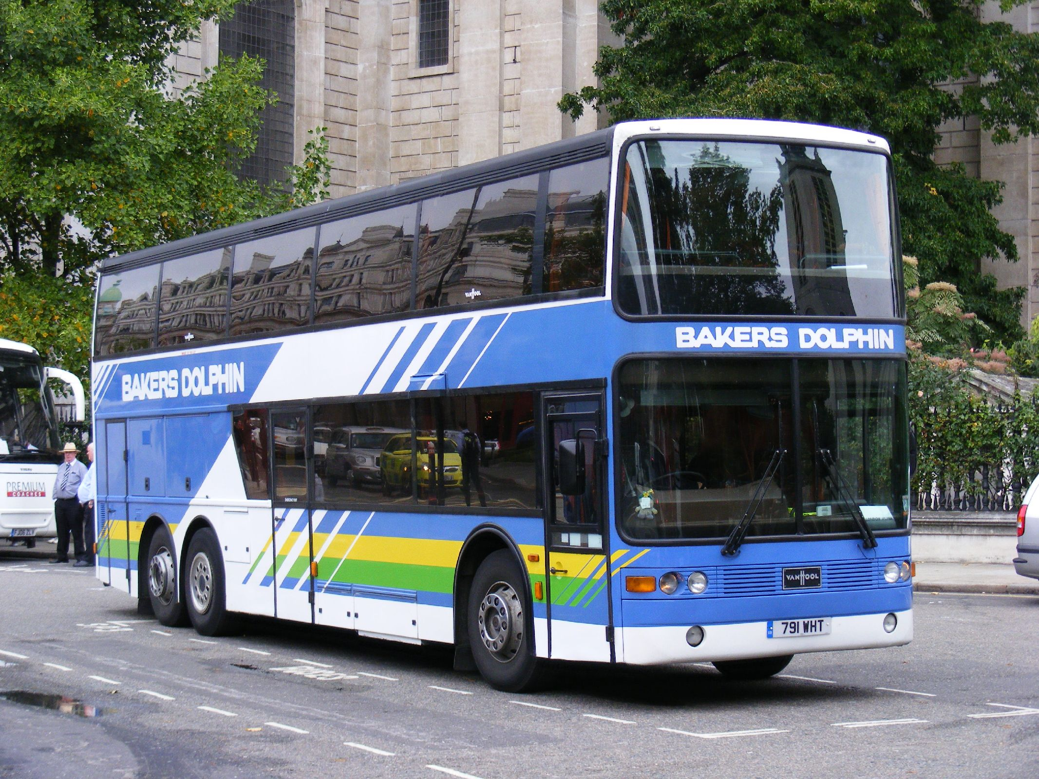 The registration, and several others in the same series have been with Bakers since the 1980s.